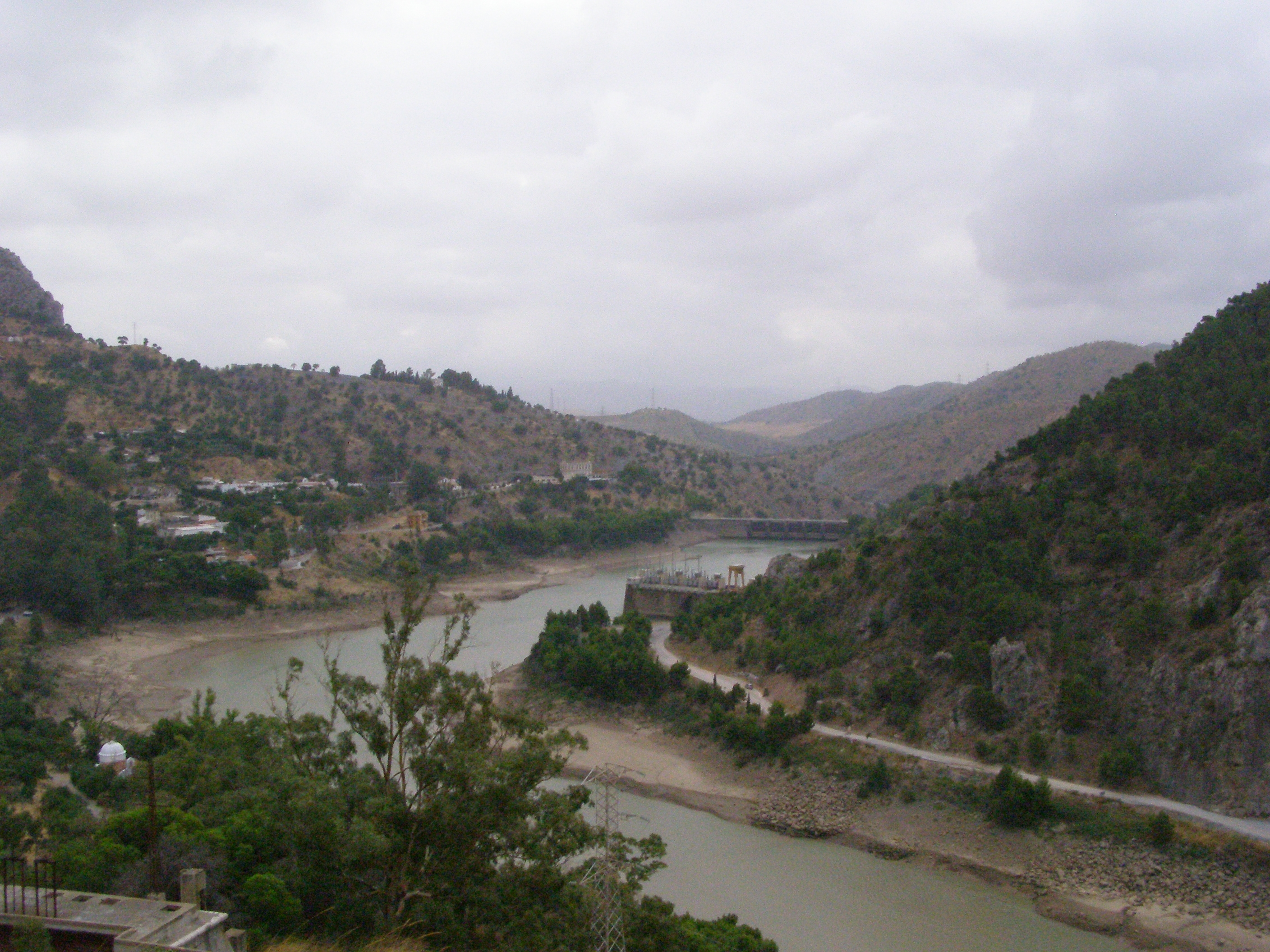 El Chorro - the Guadahorce river